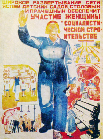 Soviet political poster. "Network of creches, kindergartens, canteens, laundries to ensure participation of women in socialistconstruction.